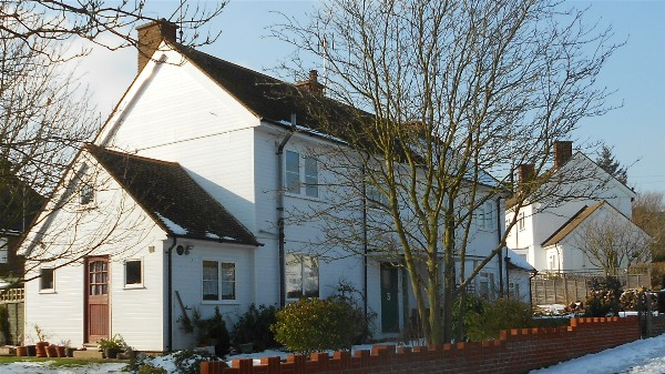 Swedish timber-framed prefabricated houses at Shorne. Off Swillers Lane in Hollands Close – in 1946 the Swedish government donated some 5000 timber homes to the UK in gratitude for our co-operation during the Second World War. Six of these are still in use in Shorne as three blocks of semi-detached dwellings.